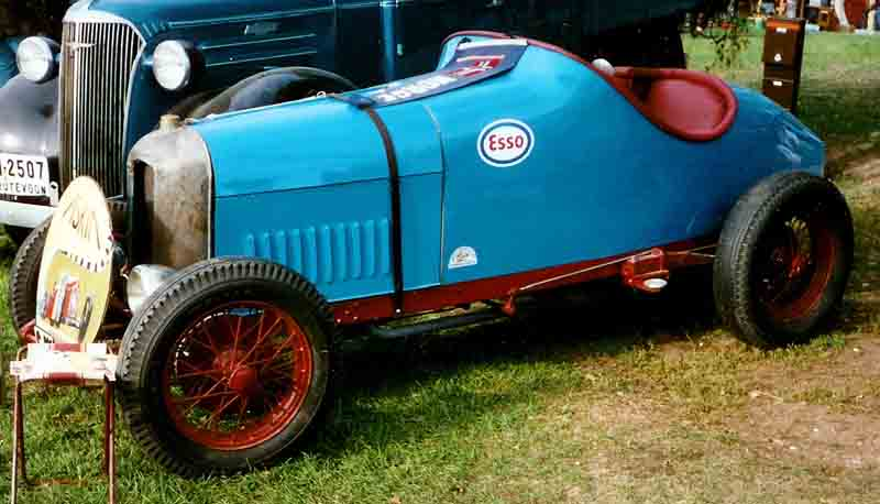 Amilcar CGSS 2-Seater Sports 1927